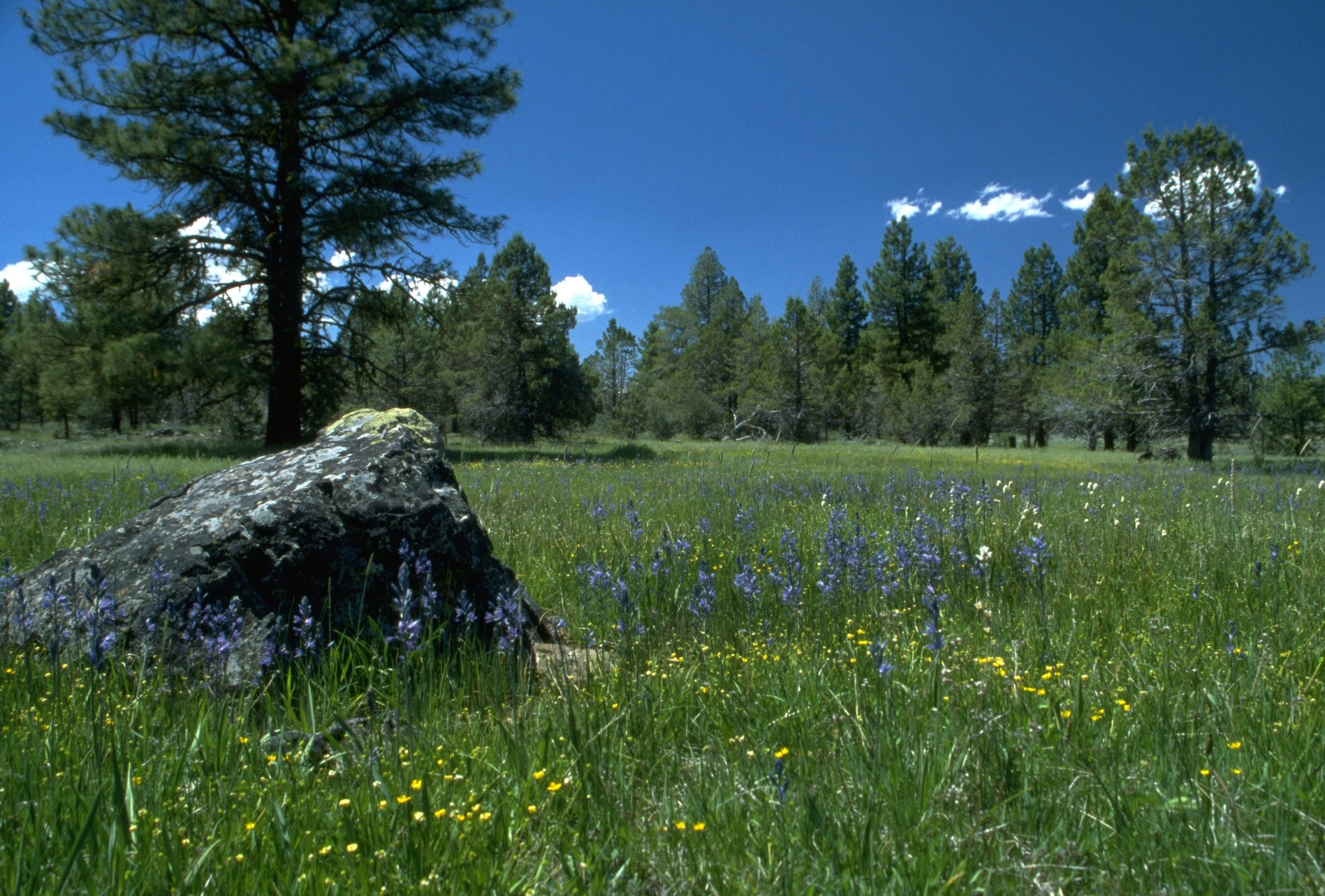 Meadow with blue camas flowers near Gerber Reservoir in Klamath County, Oregon